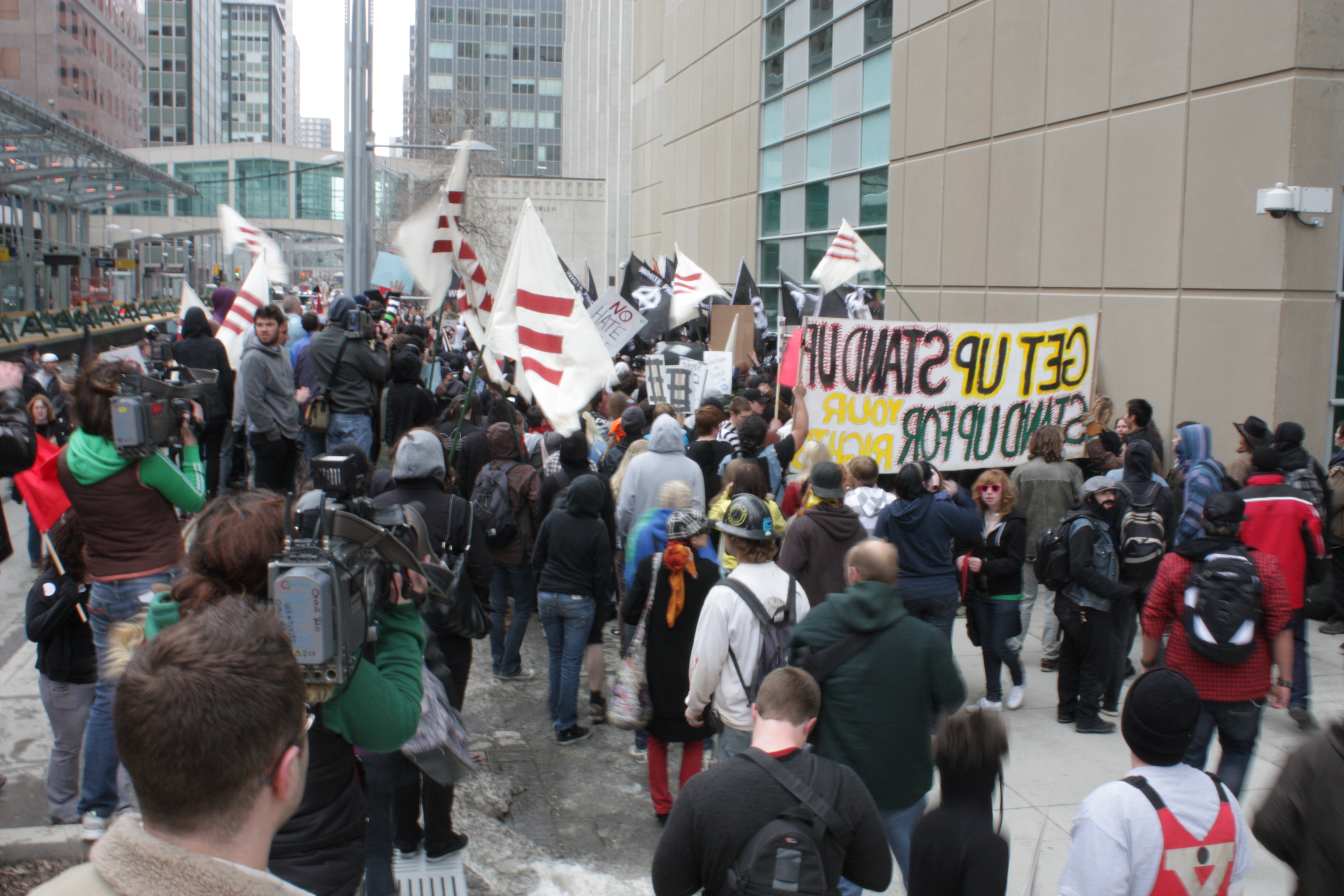 Anti-Racism protestors and members of the ARA surrond members of the Aryan Guard in Calgary, Alberta.